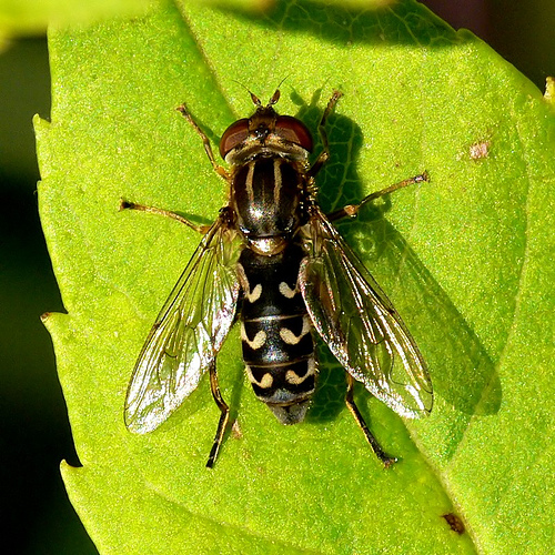 Hoverfly of the Eristalini tribe Anasimyia contracta